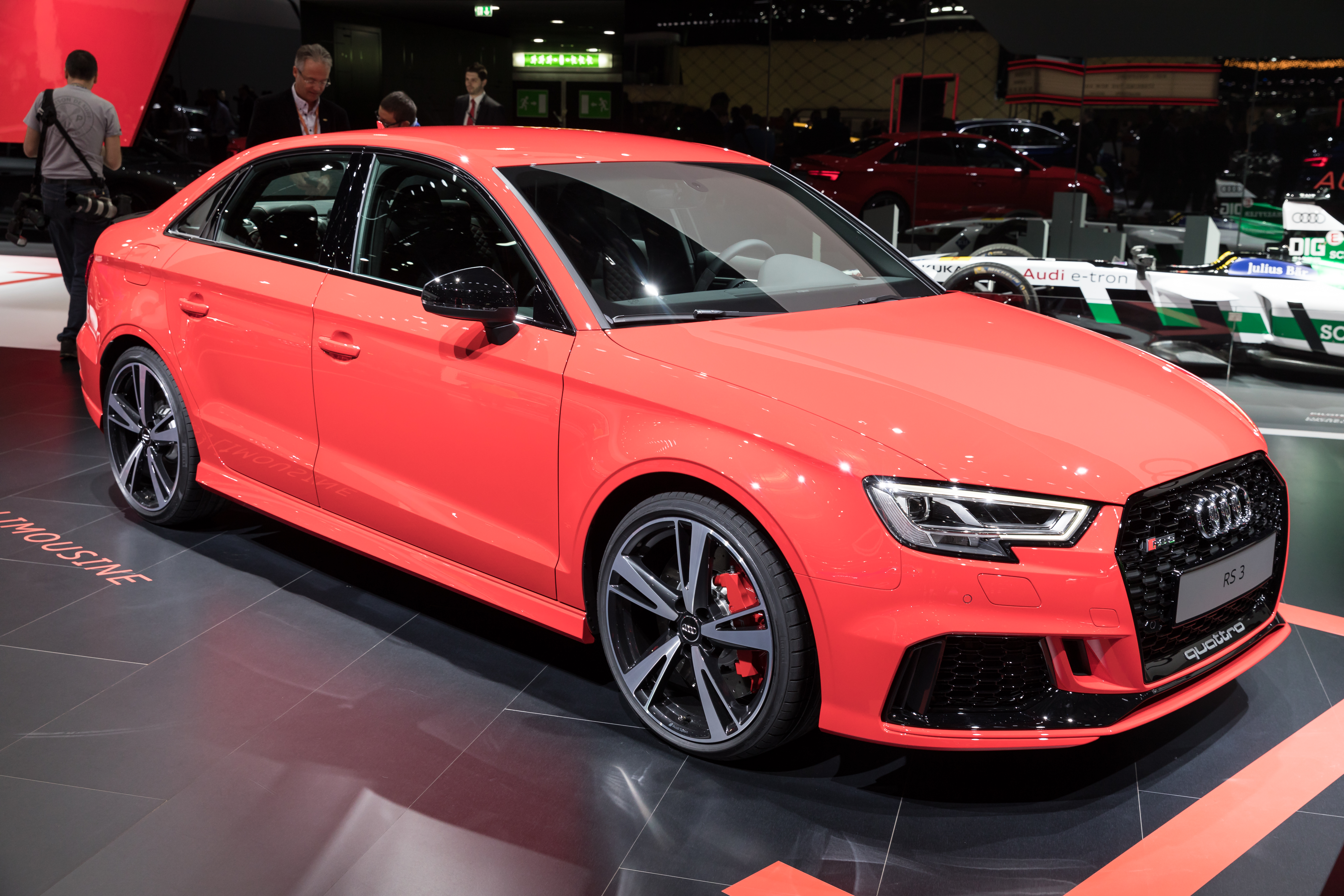 Geneva International Motor Show 2018